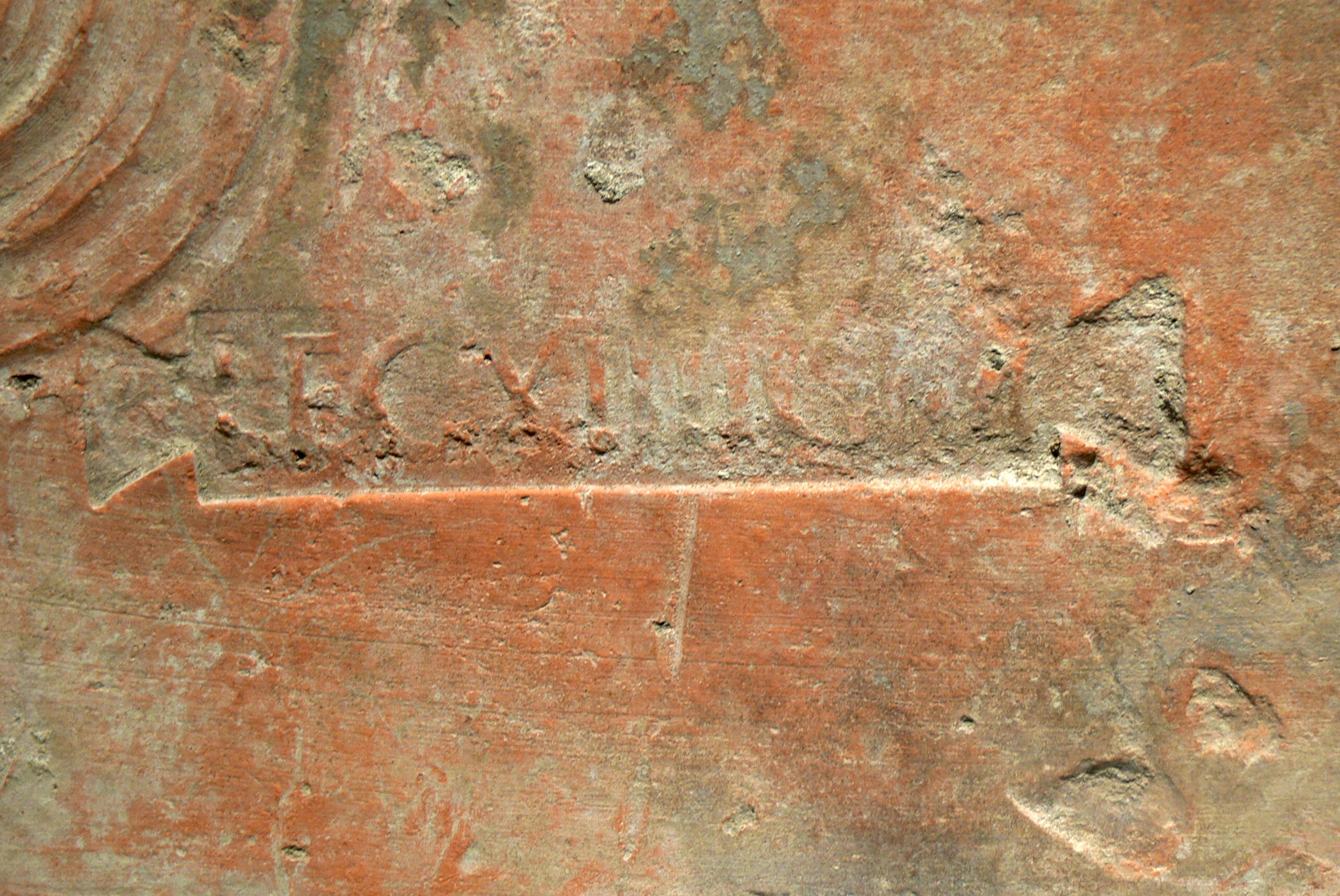 Roman Museum, Vienna. Underfloor heating tile ( 2nd century ) with brick stamp of the 14th legion.